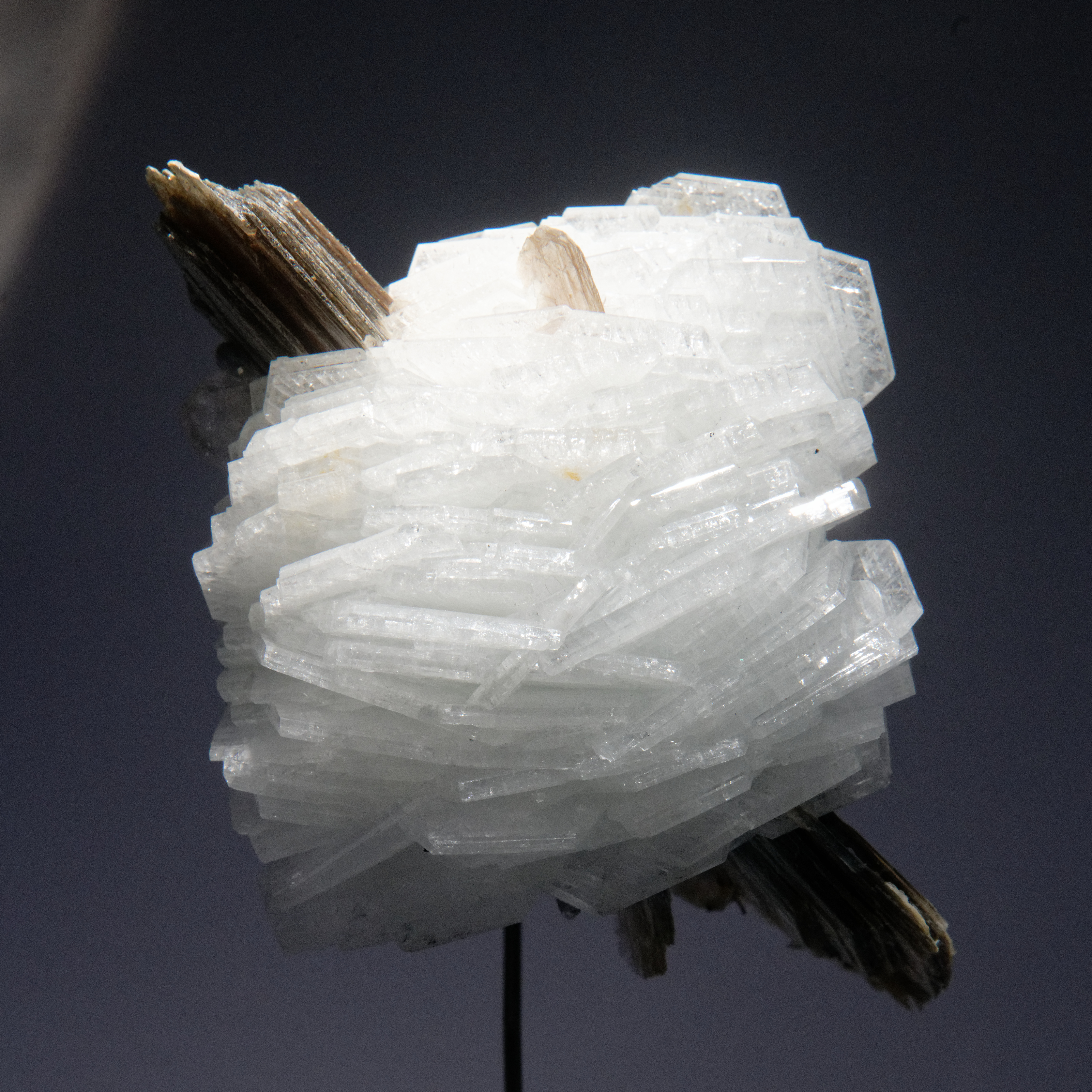 Muscovite on albite from Córrego do Urucum, Minas Gerais, Brazil. Gallery of Mineralogy and Geology of the French National Museum of Natural History in Paris.